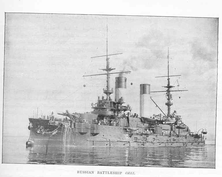 Battleship Orel